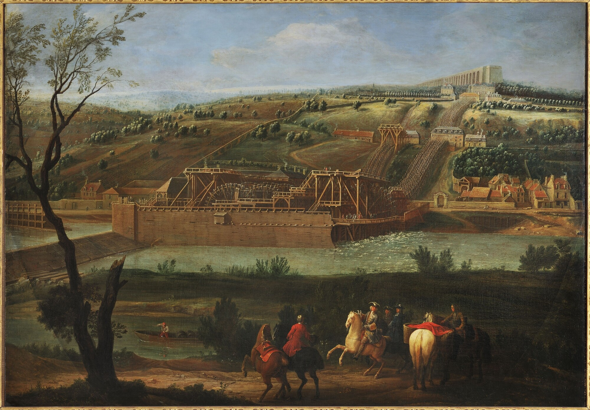 View of the Machine of Marly and the Château de Louveciennes